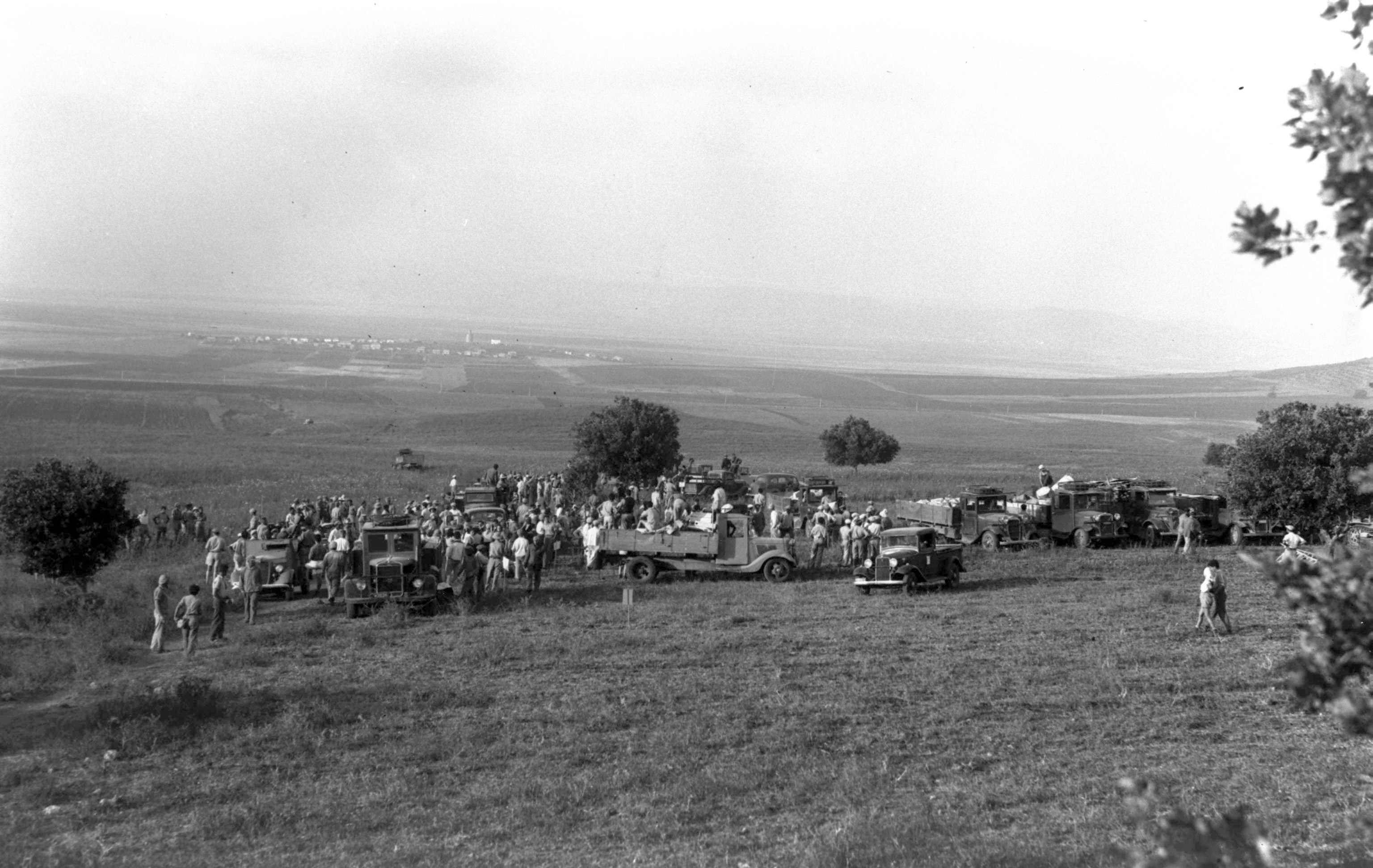 kibbutz alonim 2 Trucks with building materials and volunteer helpers arriving at the site of kibbutz alonim to help in the establishment of the new settlement